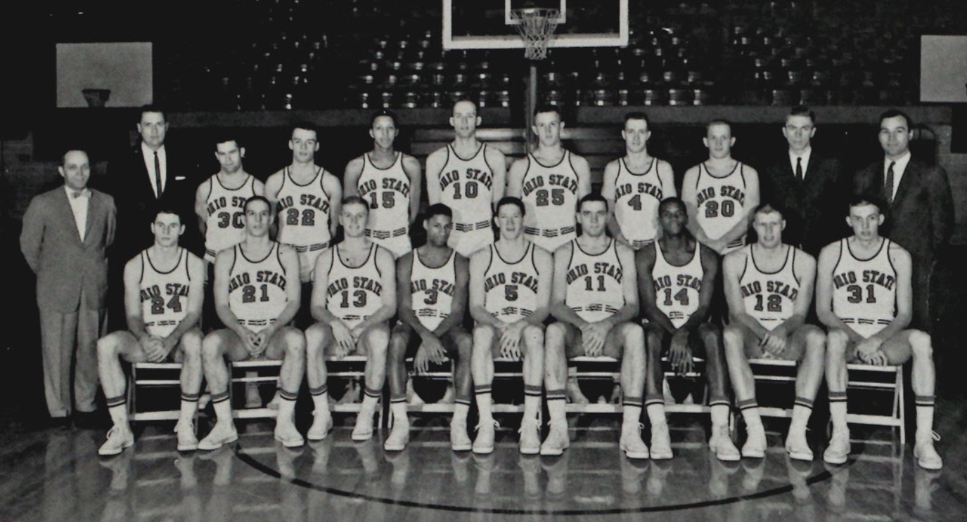 The national champion Ohio State Buckeyes basketball team from the 1960 “Makio” yearbook